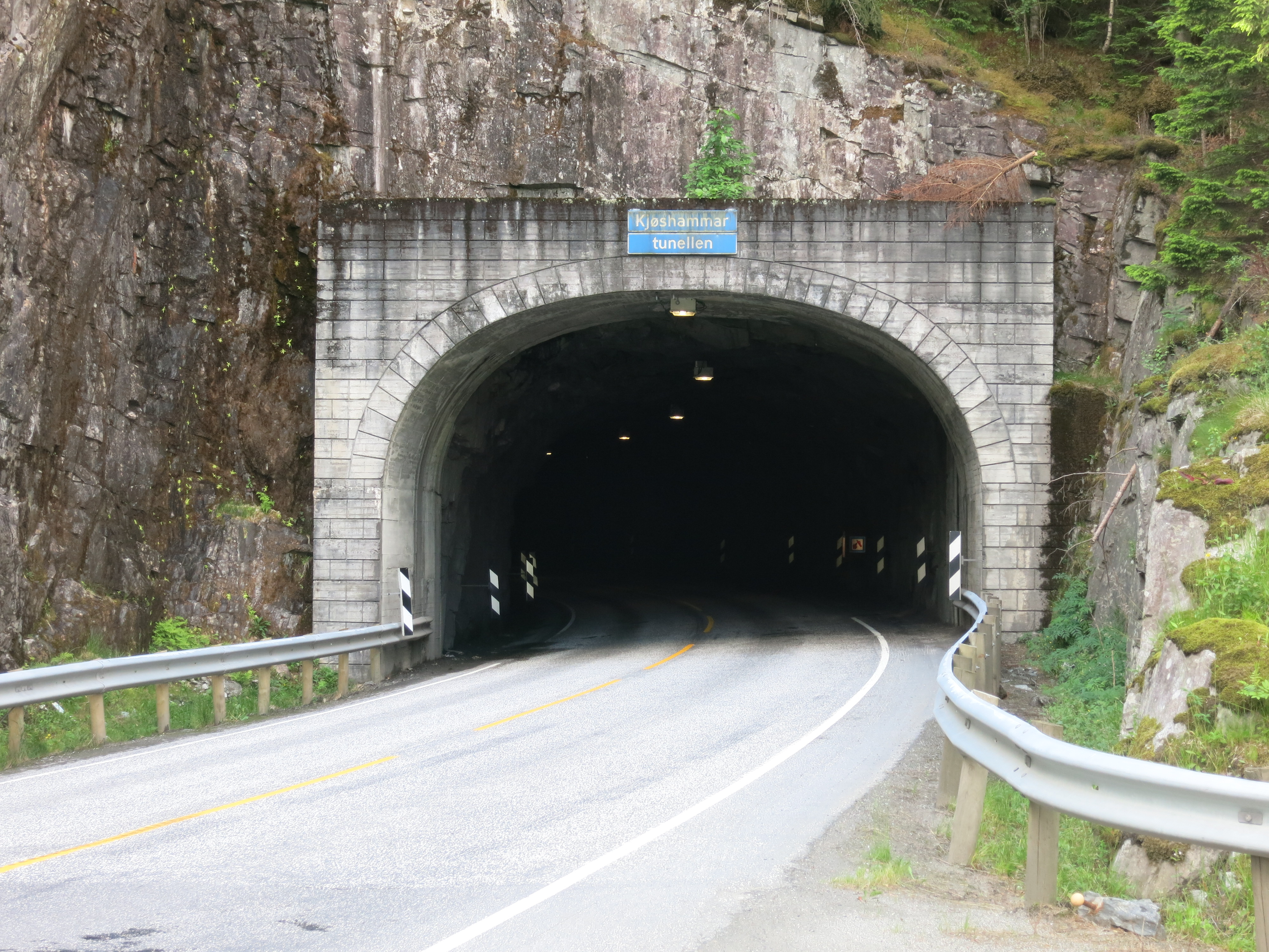 Kjøshammartunnelen north entry